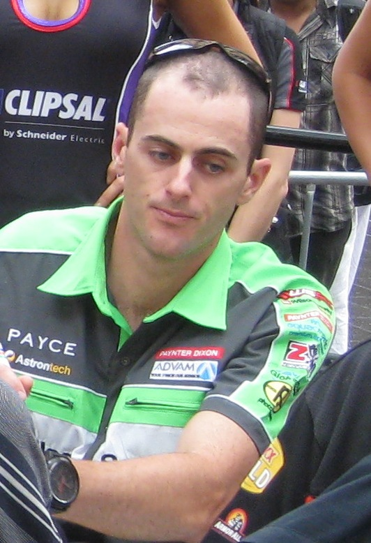 V8 Supercar driver David Wall (racing driver) in 2013